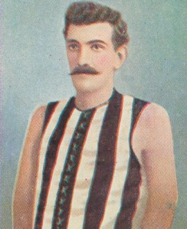 Photograph of Alf Dummett from 1901-1910 .